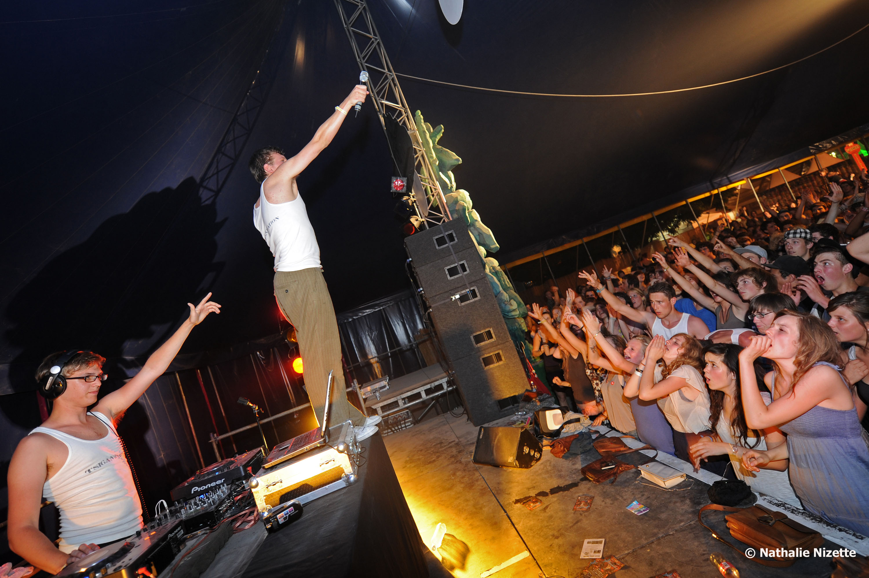 Tsiganisation Project at Couleur Café (Brussels) 2010